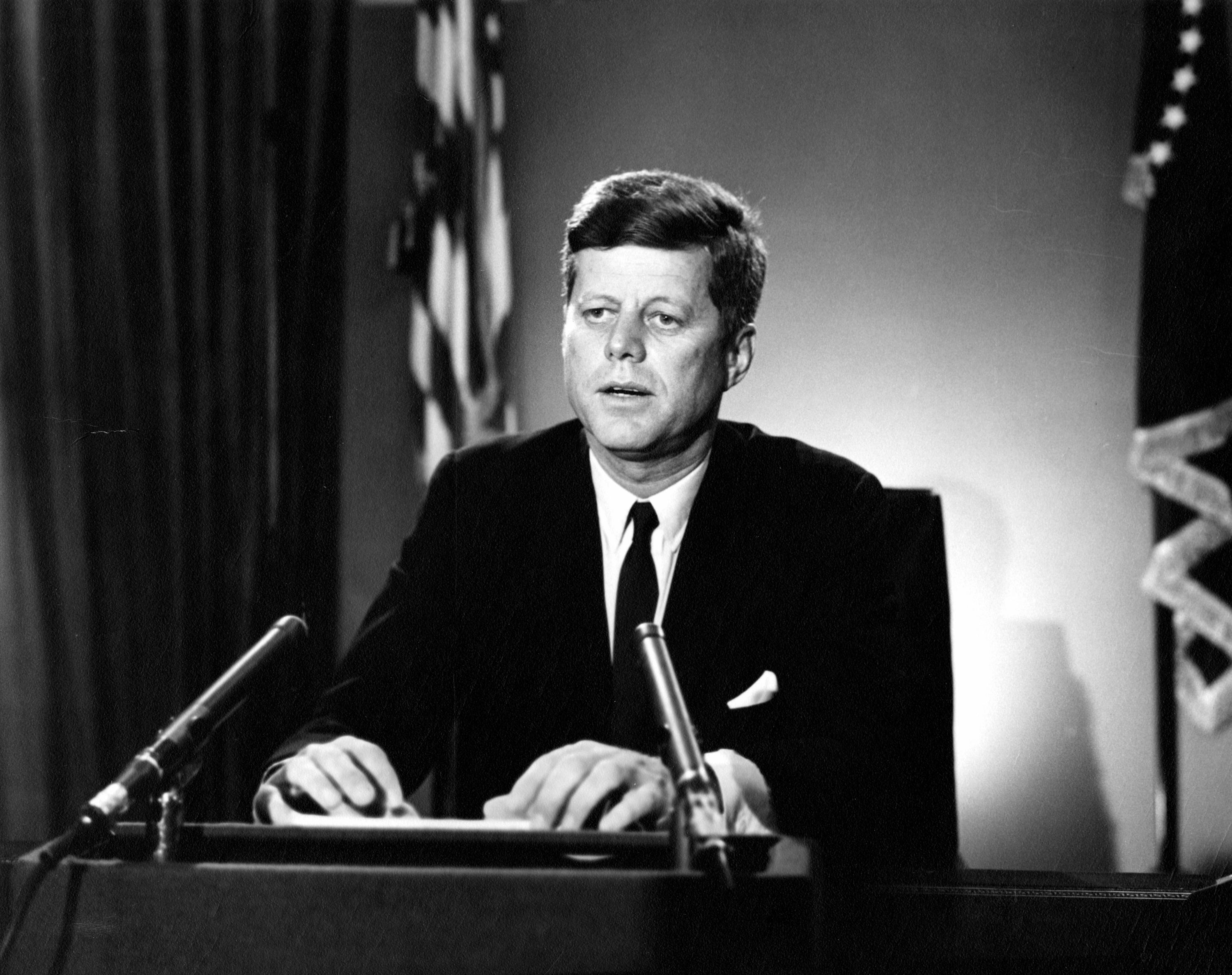 President Kennedy delivers radio and television address on the Limited Nuclear Test Ban Treaty. White House, Oval Office.